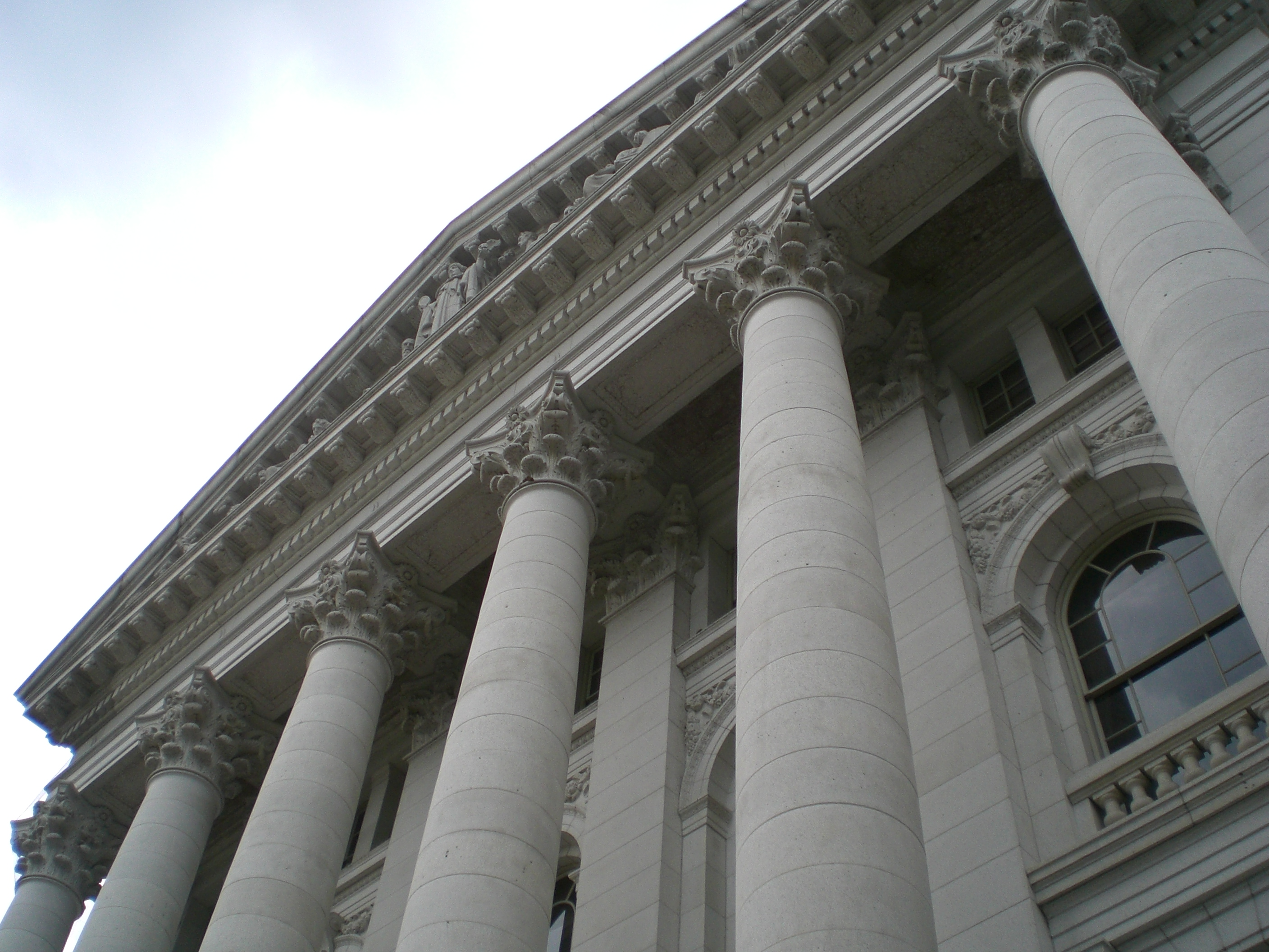 Pillars at the Wisconsin State Capitol